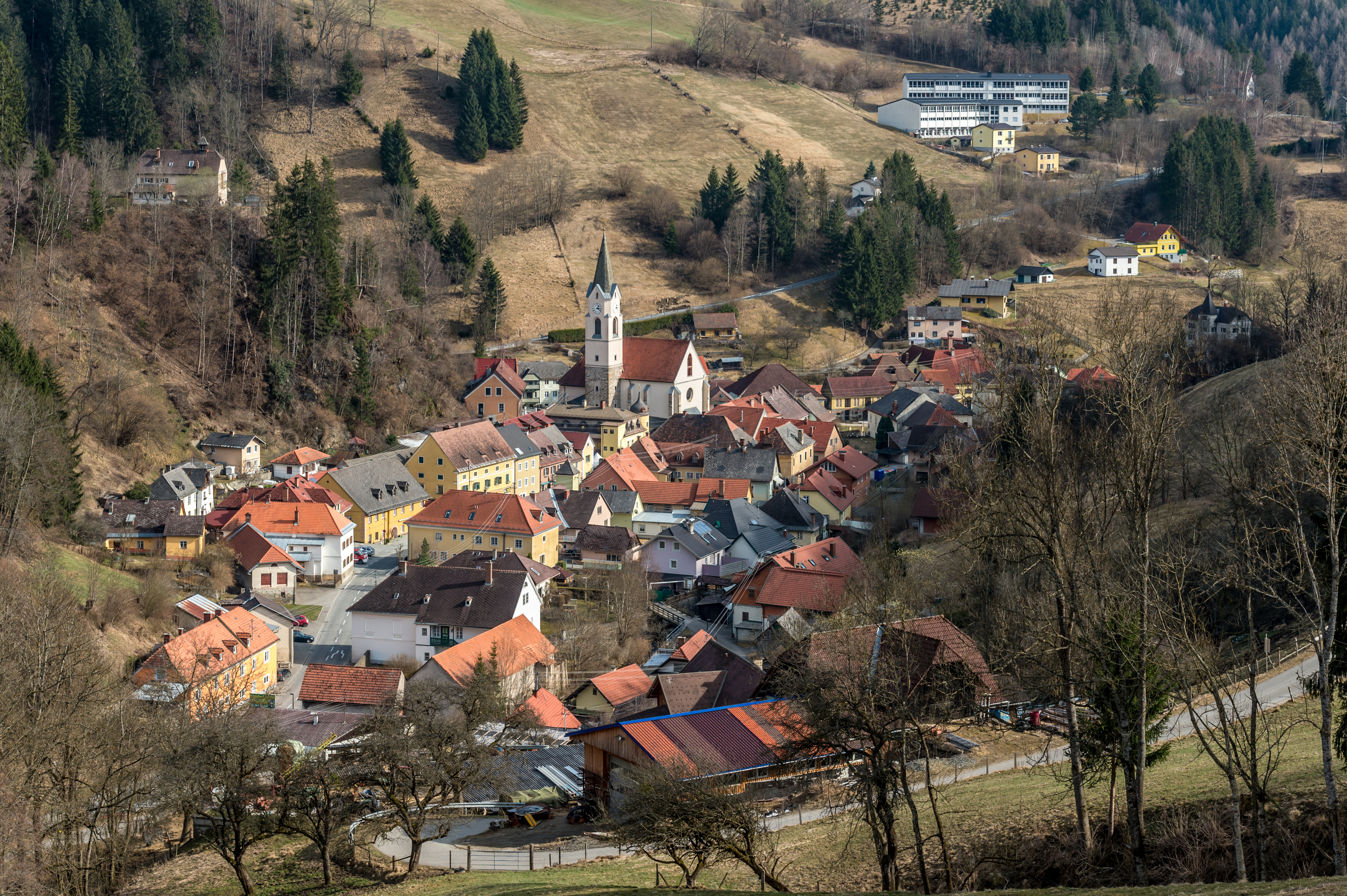 Northwestern view of the market town Hüttenberg, district Sankt Veit, Carinthia, Austria, European Union